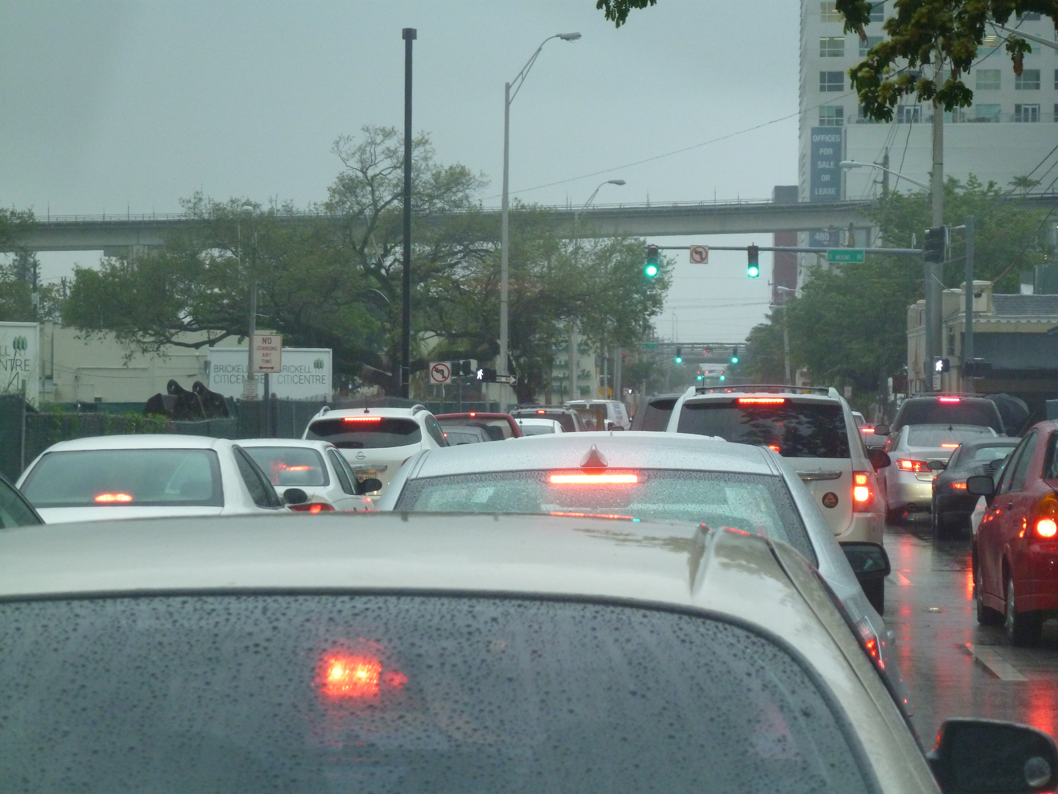 Gridlock on a short stretch of SW 7th Street (Tamiami Trail) westbound in Brickell from Brickell Avenue to Interstate 95.